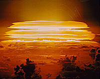 Redwing Cherokee nuclear test. Detonation.